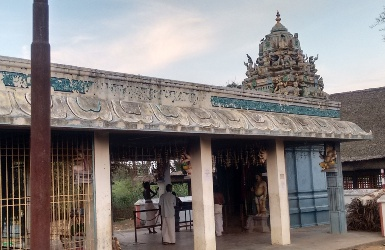 Athivinayakar temple ஆதிவிநாயகர் கோயில்